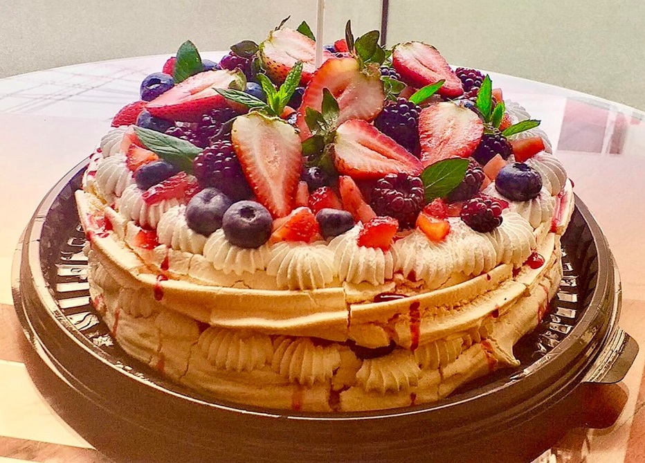 pastry pasteleria postres pavlova